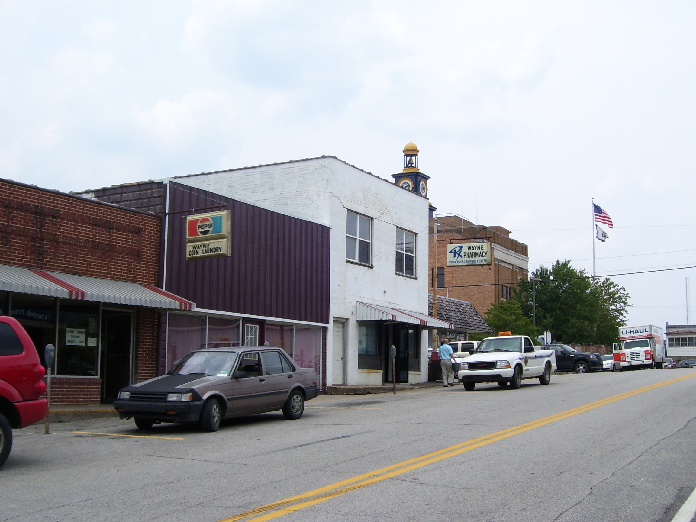 Hendrick Street runs by the courthouse.